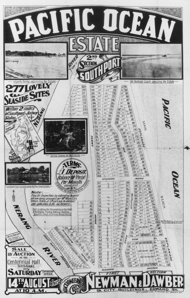 Estate map for Pacific Ocean Estate, Southport, 1915 Real Estate map advertising the sale of land by auction at Southport. Map shows the land subdivisions and four photographs: Southport High School, a scrub scene on the estate, Myer's Ferry adjoining the estate,and the old Burleigh coach passing the estate. The auctioneers were Newman & Dawber. The area depicted in the map is of Surfers Paradise (but that name was not in use at that time)